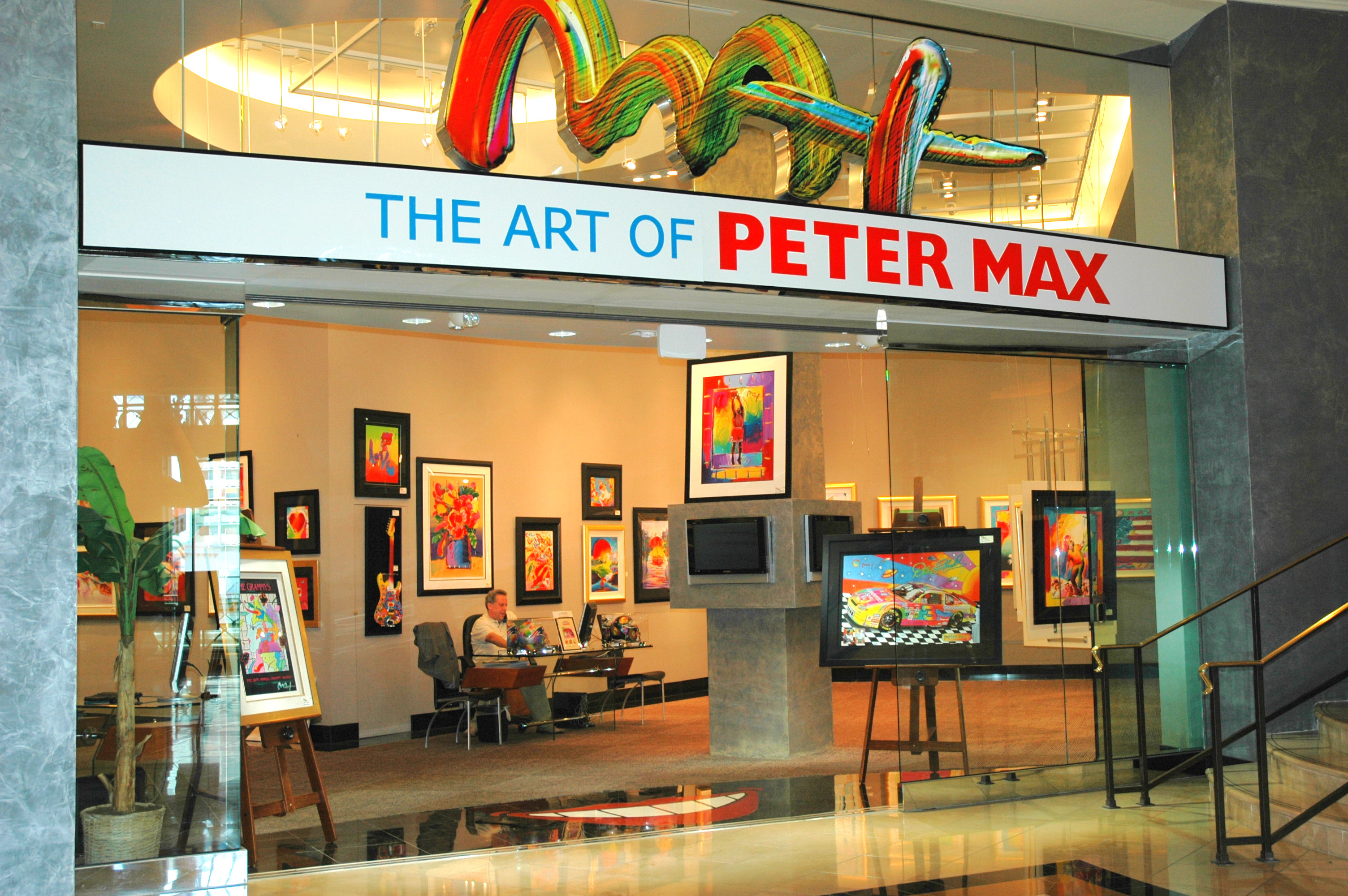 Peter Max Art Studio